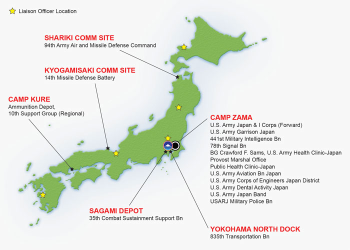 Map of Army Units on Honshu, Japan